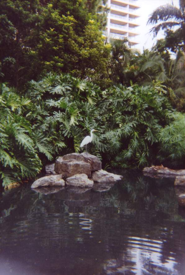 Brisbane City Botanic Gardens